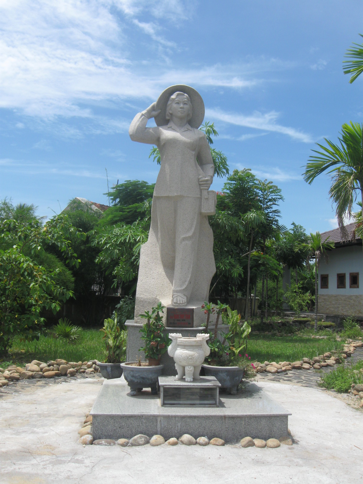 Statute of Đặng Thùy Trâm.